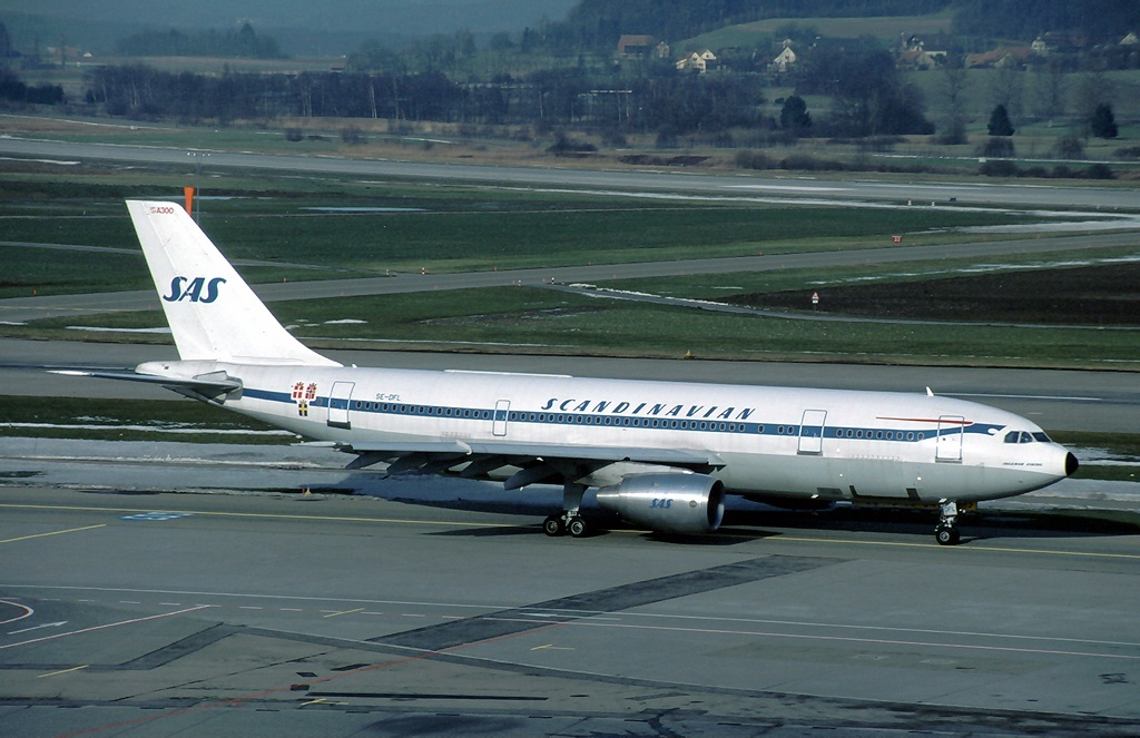 Scandinavian Airlines System Airbus A300B2-320 SE-DFL at Zurich International Airport